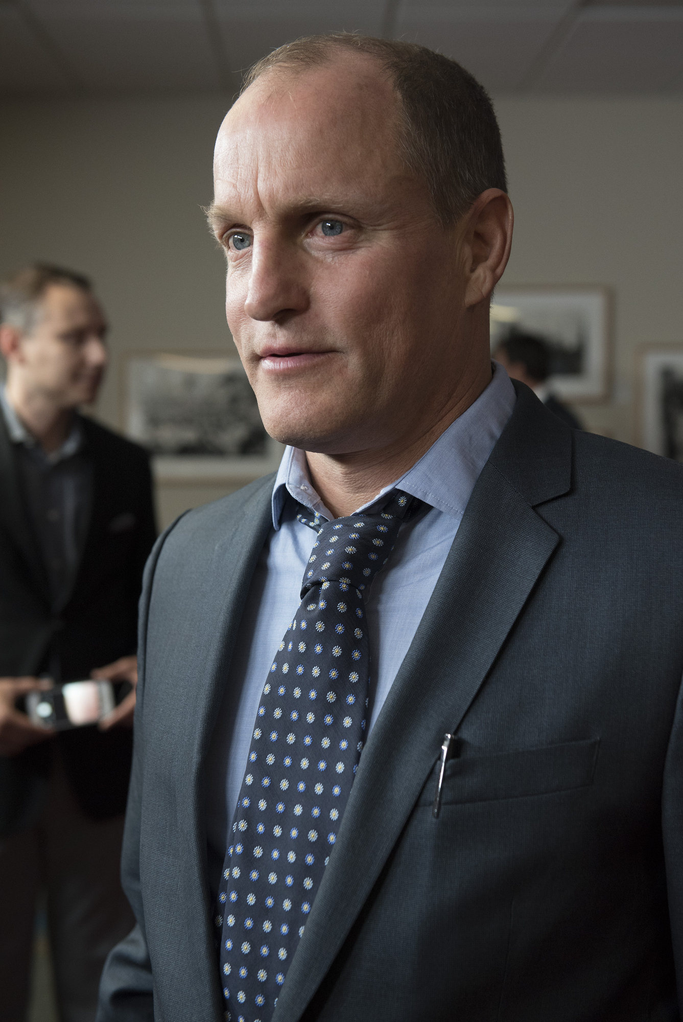 Actor Woody Harrelson talks to the Austin media before a screening of his new movie, LBJ, at the LBJ Presidential Library. On Saturday evening October 22, 2016, the LBJ Presidential Library held a sneak peek of Rob Reiner's new film LBJ, starring Woody Harrelson as the 36th president. The film, which premiered at the Toronto International Film Festival in September, chronicles the life and times of Lyndon Johnson who would inherit the presidency at one of the most fraught moments in American history. Following the screening, director Rob Reiner, actor Woody Harrelson, and writer Joey Hartstone joined LBJ Library Director Mark Updegrove on stage for a conversation about the film.